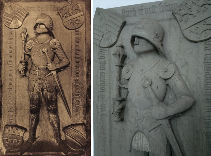 Epitaph of Siegfried von Schwalbach in the carmelite church in Boppard, died 1497. left: around 1900 (old post card), right: today